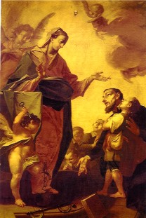 Gerolamo Emiliani (also Jerome Emiliani, Jerome Aemilian, Hiëronymus Emiliani) and his students with Mary.